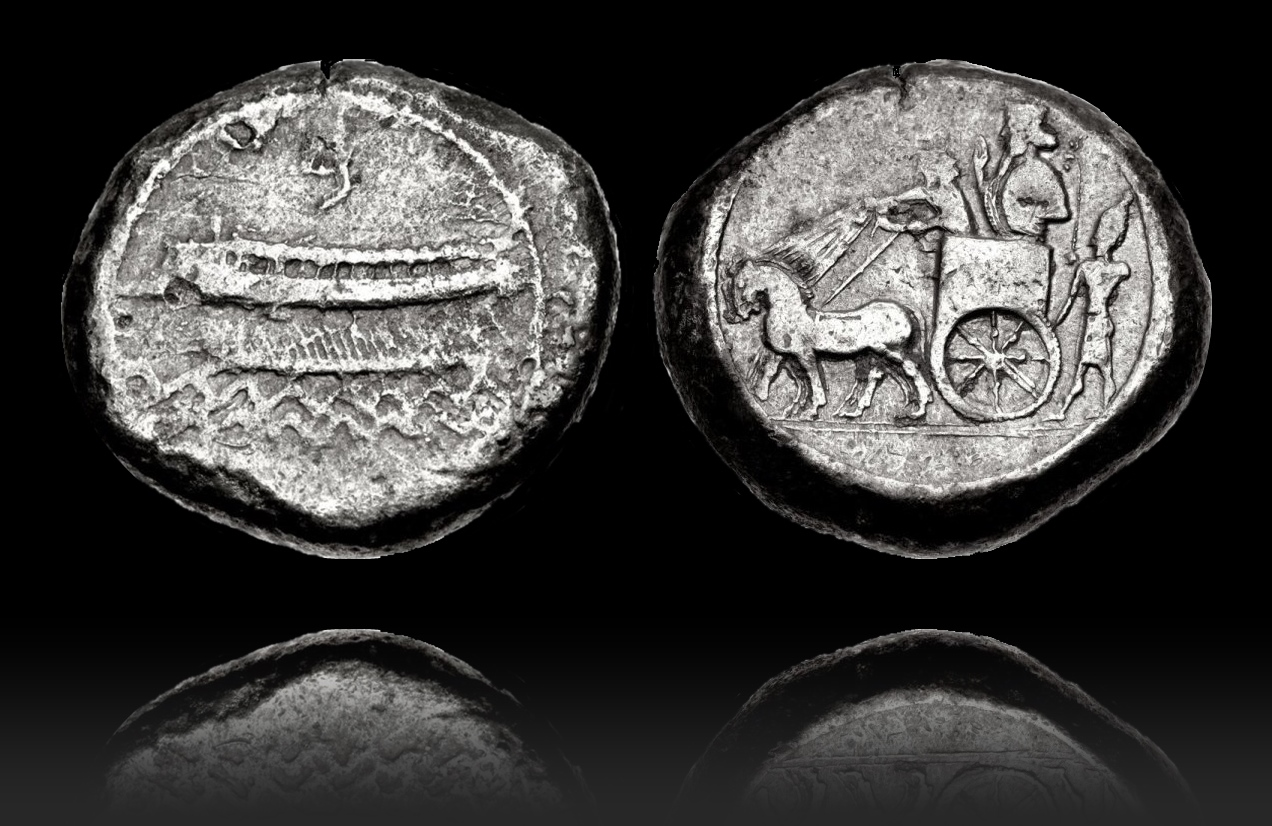 PHOENICIA, Sidon. Baalshillem (Sakton) II. Circa 401-365 BC. AR Dishekel (30mm, 27.94 g, 1h). Phoenician pentekonter left; Phoenician B above, waves below / King of Persia and driver in chariot drawn by two horses left; behind, attendant standing left. E&E-S 587 94 var. (D29/R unlisted rev. die) Betlyon 18; Rouvier 1096; HGC 10, 236.